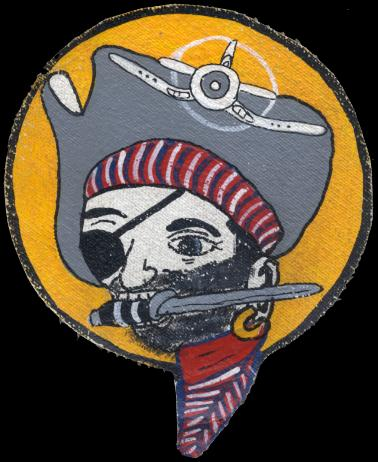 To see the real squadron patch please go to